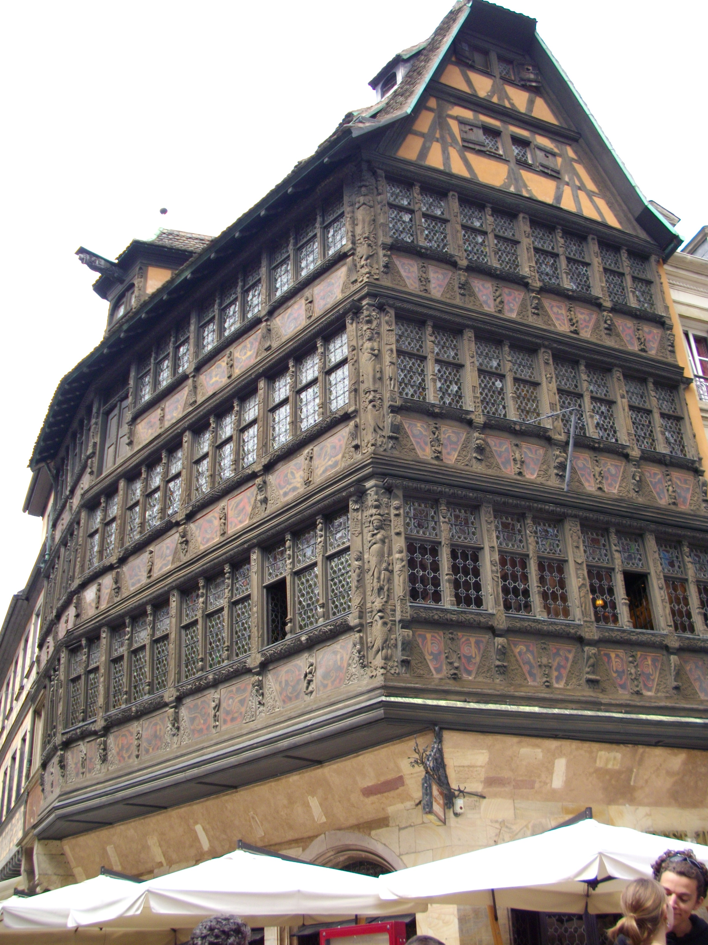 Maison Kammerzell, Strasbourg